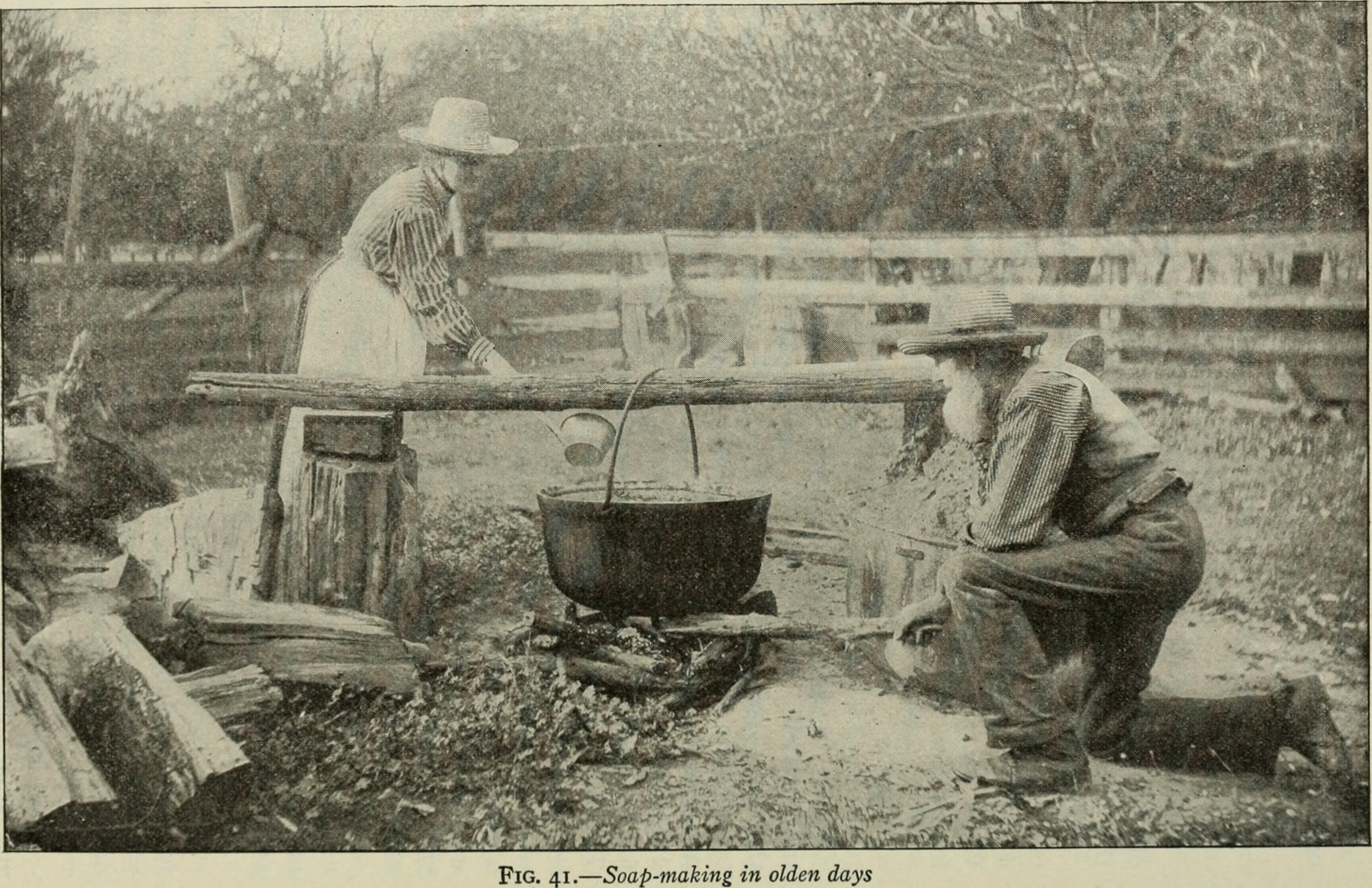 Title: Annual report of the New York State College of Agriculture at Cornell University and the Agricultural Experiment Station Year: (Albany, N.Y. : 1911-1971. (Albany, N.Y. : (1910s) Authors: New York State College of Agriculture; Cornell University. Agricultural Experiment Station Subjects: New York State College of Agriculture; Cornell University. Agricultural Experiment Station; Agriculture -- New York (State) Publisher: [Ithaca, N. Y. ?] Text Appearing Before Image: ' Text Appearing After Image: '